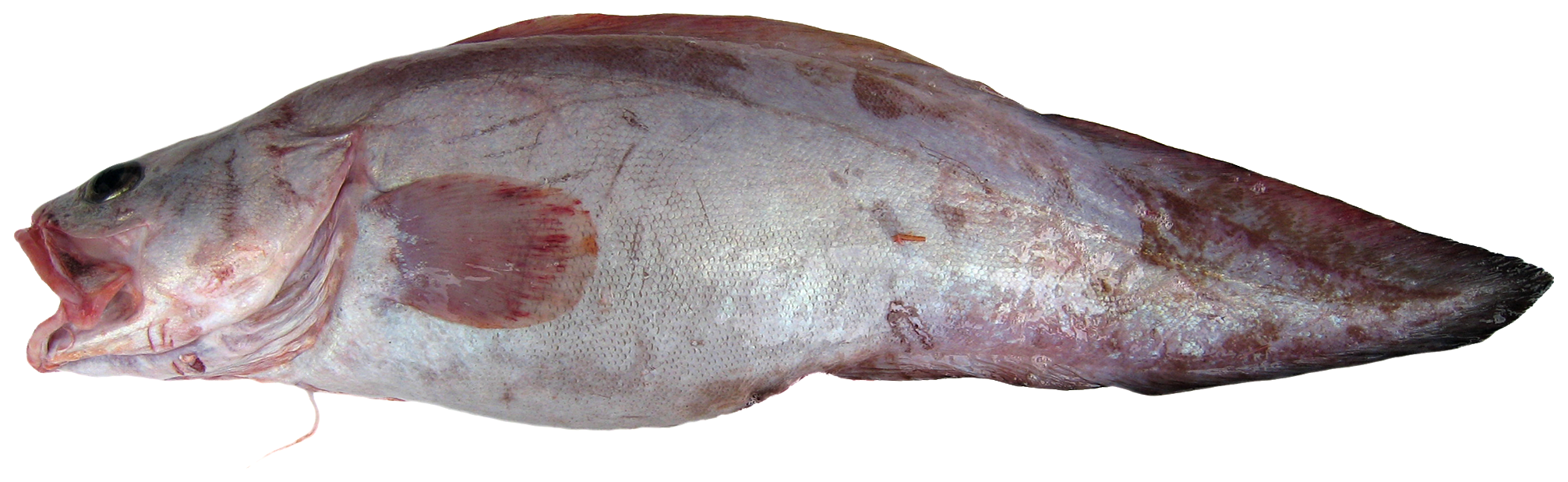 Brotula barbata (Bloch & Schneider, 1801)—bearded brotula, 628 mm TL. Photo by W Toller.